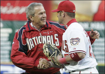 President George W. Bush and Washington Nationals catcher Brian Schneider shake hands after the President threw the ceremonial first pitch Thursday, April 14, 2005. Schneider went 1 for 3 with an RBI in the Nationals' inaugural home 5-3 win over the Arizona Diamondbacks.